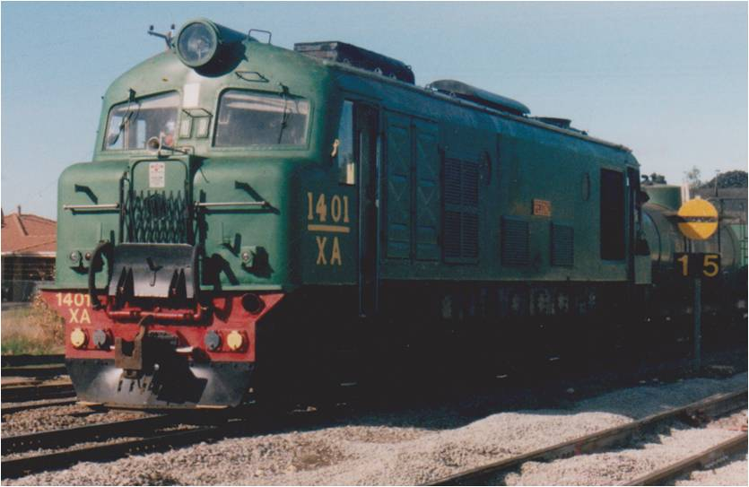 Ex-Western Australian Government Railways locomotive XA1401 in use with the Hotham Valley Railway at Pinjarra. Corporal29 (talk) 07:40, 3 September 2011 (UTC) category:locomotives